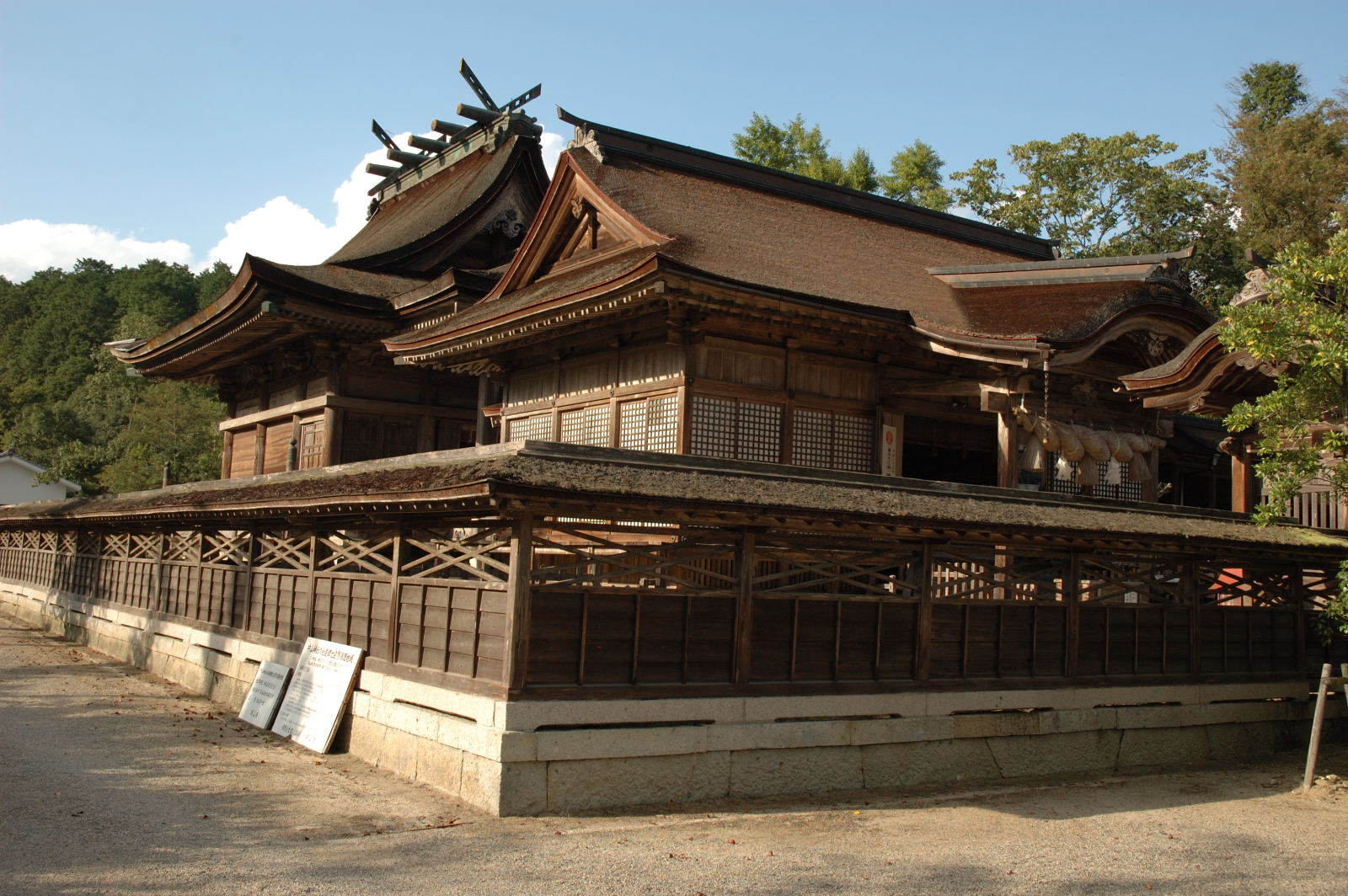 Haiden (oratory) and Honden (main sanctuary) (latter designated as Japan's national important cultural property), Nakayama Jinja shrine, Tsuyama city, Okayama, Japan